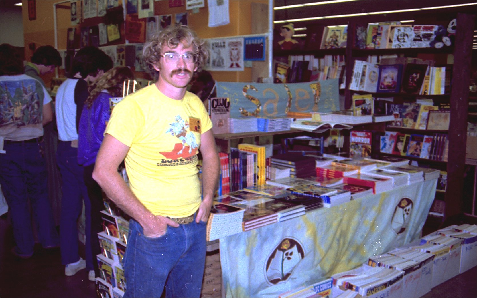 1982 San Diego Comic-Con International. Scanned from the original 35MM film negative. NOTE: Permission granted to copy, publish, broadcast or post any of my photos, but please credit "photo by Alan Light" if you can. Thanks.